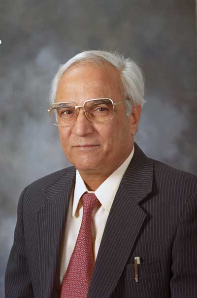 Ch Vinay Kumar, Ex- Vice Chancellor of HAU, Hisar and Ex- Founding Director General of JCDV, Sirsa